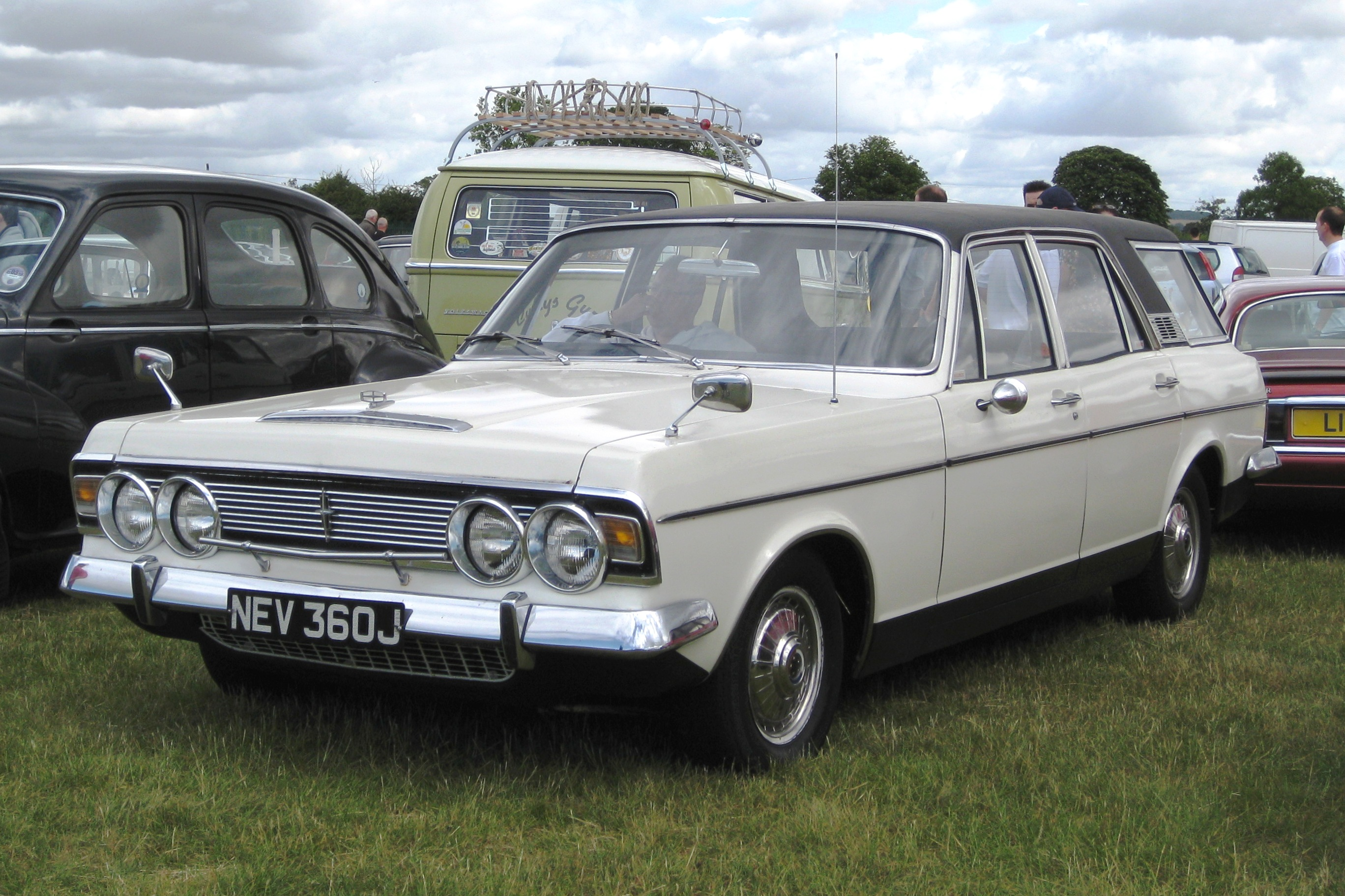 Ford Zodiac Mark IV estate